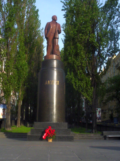 Statue of Lenin in central Kiev